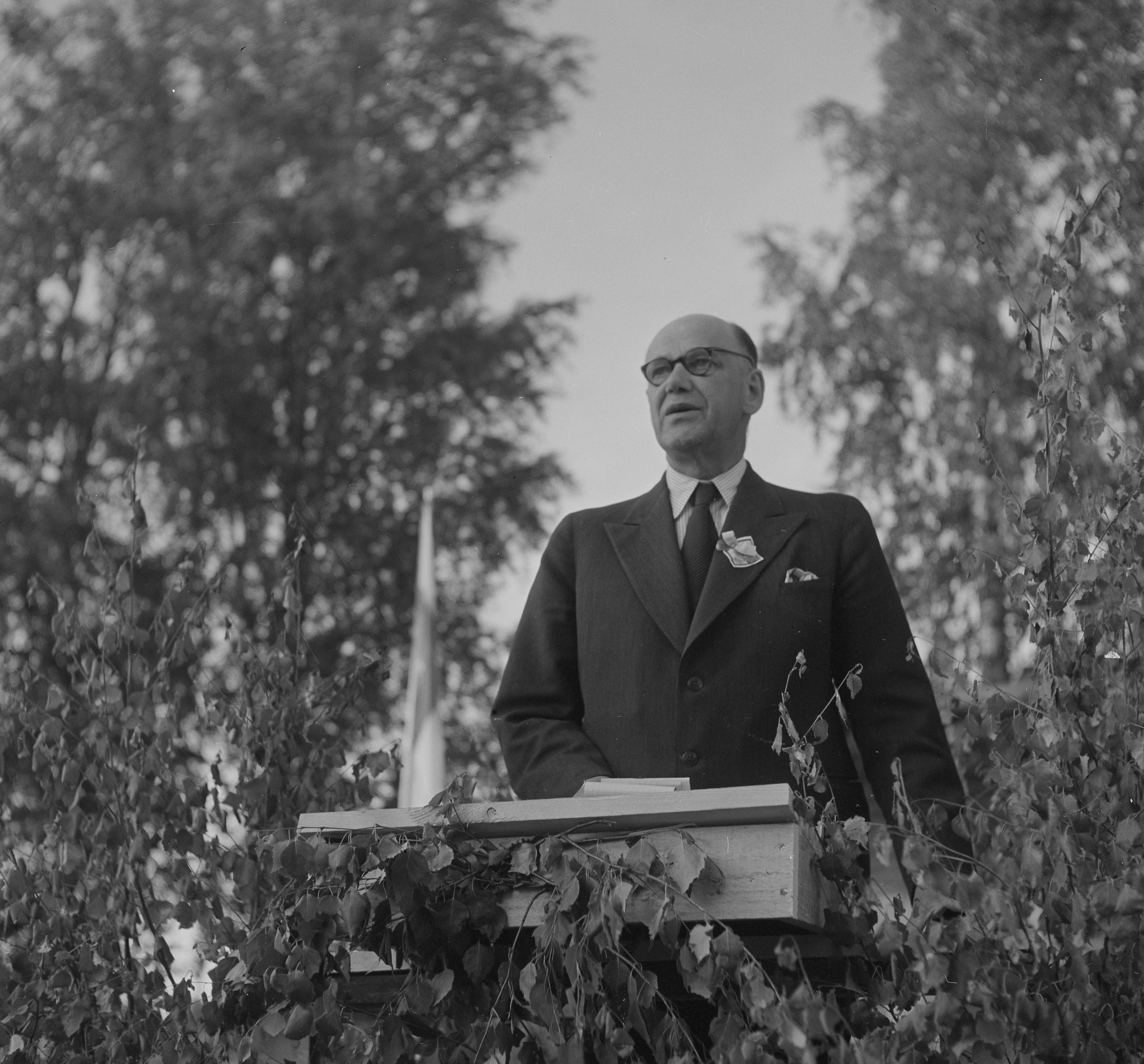 Photograph of the Finnish politician Erkki Paavolainen (1890–1960) speaking in Räisälä.